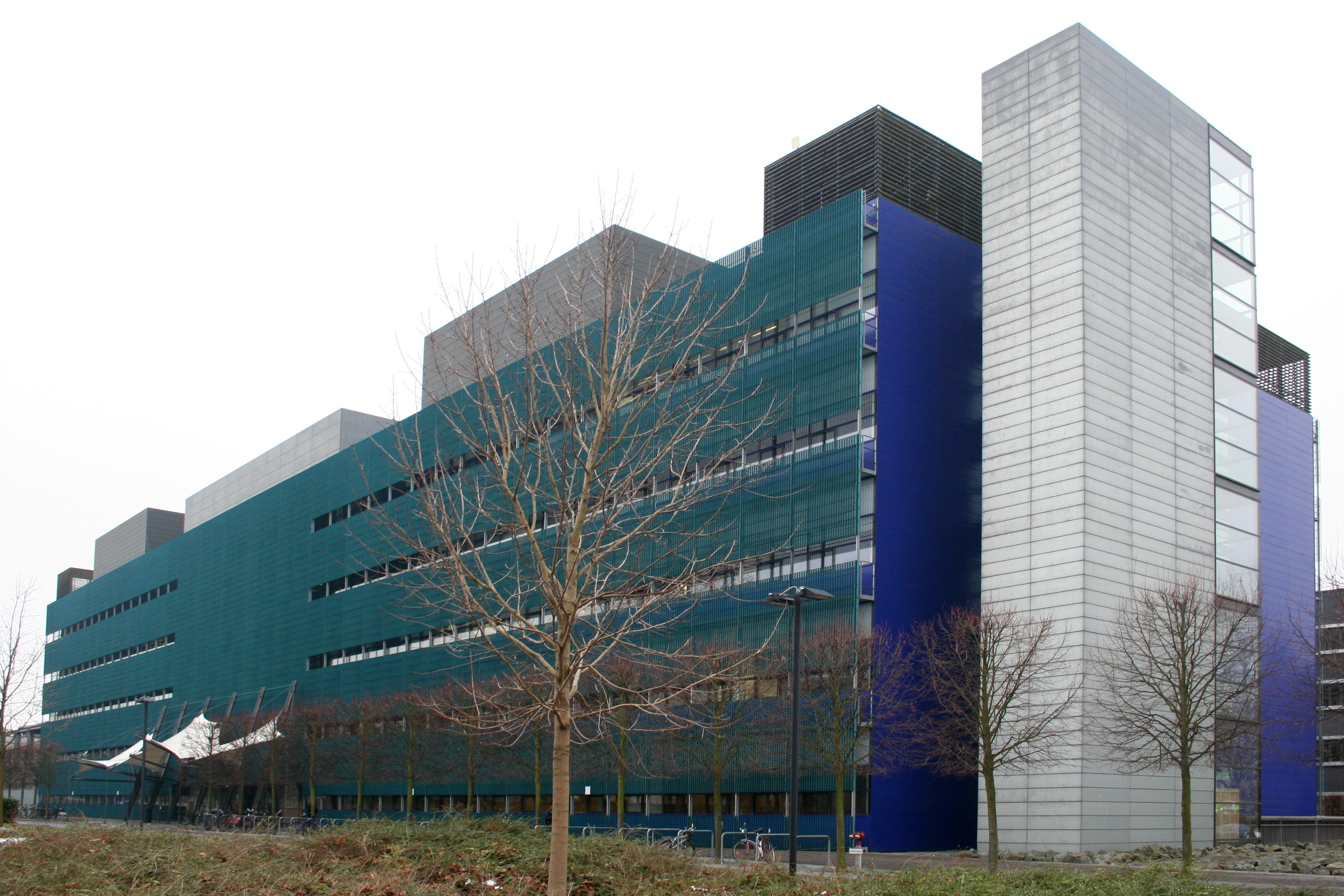 Max Planck Institute for Molecular Cell Biology and Genetics in Dresden.